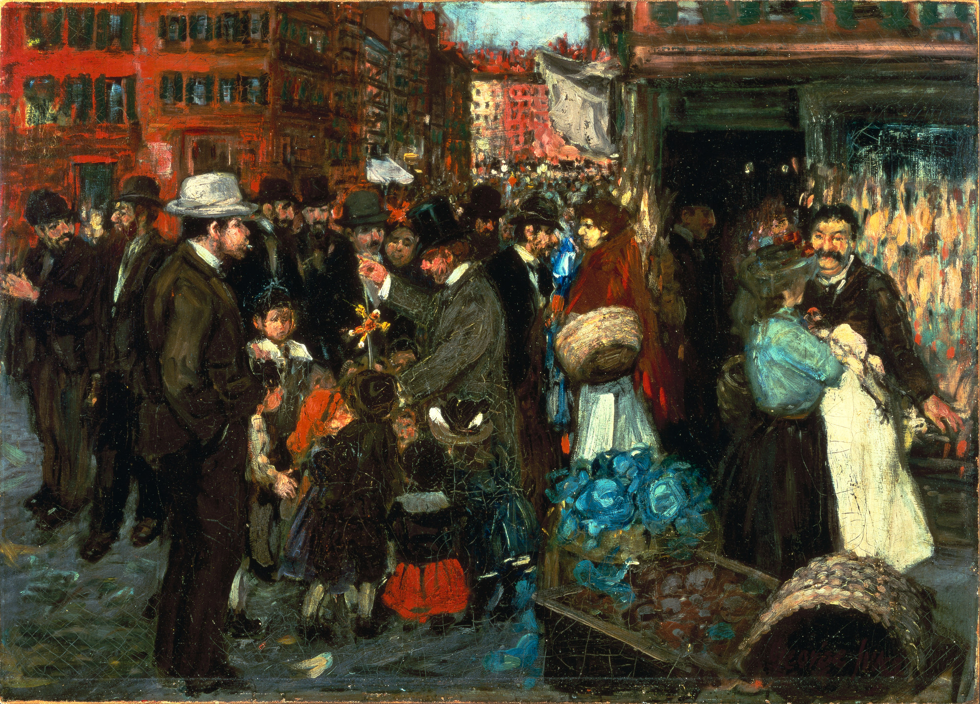 George Benjamin Luks (American, 1867-1933). Street Scene (Hester Street), 1905. Oil on canvas, 25 13/16 x 35 7/8 in. (65.5 x 91.1 cm). Brooklyn Museum, Dick S. Ramsay Fund, 40.339